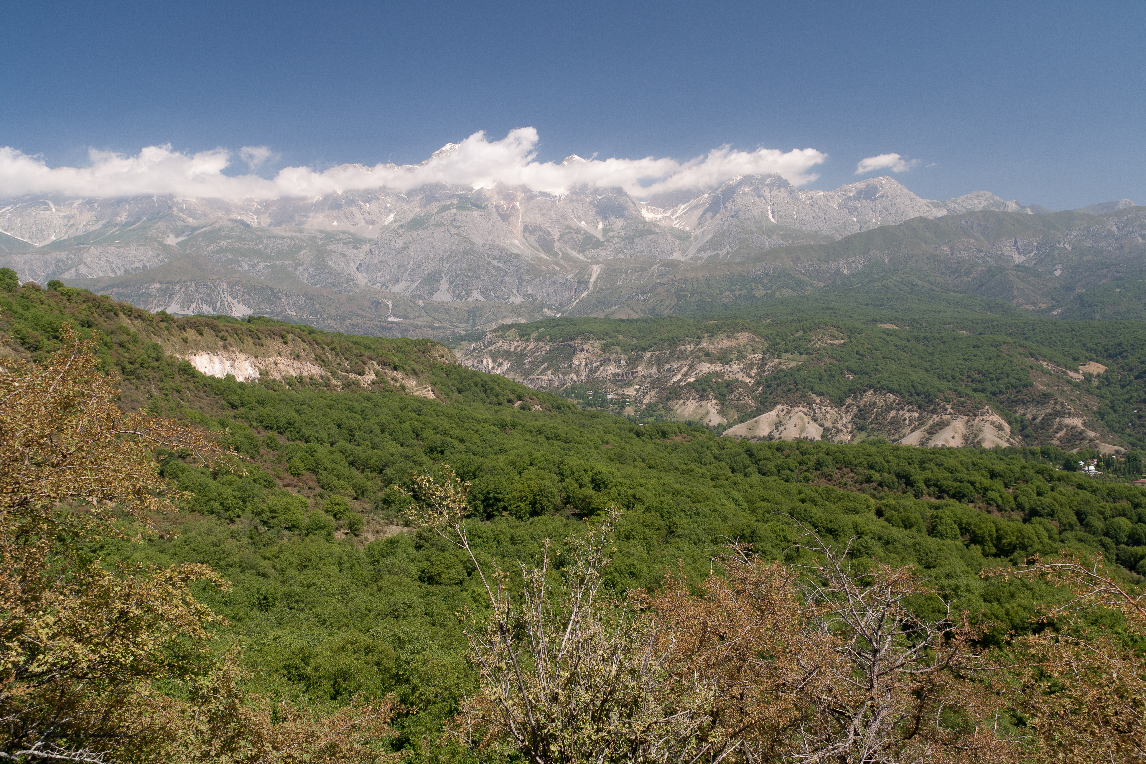 biggest walnut forest in the world in Arslanbob/Kyrgyzstan